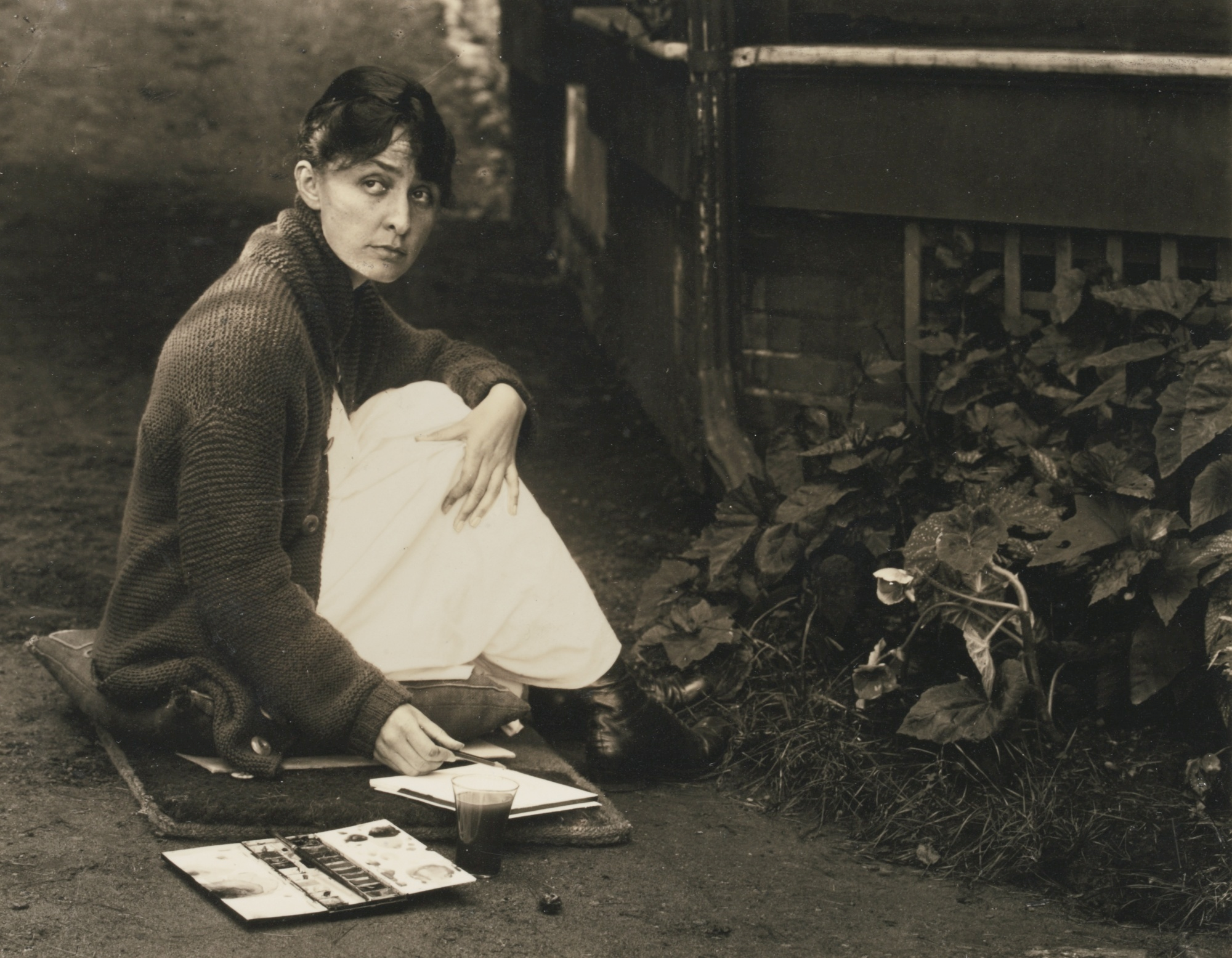 Photograph of Georgia O'Keeffe, seen nestled on a cushion on the ground, with her sketchpad and watercolors by her side.